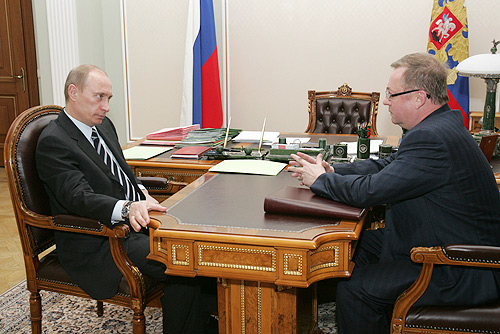 NOVO-OGARYOVO. With Chairman of the Audit Chamber Sergei Stepashin.